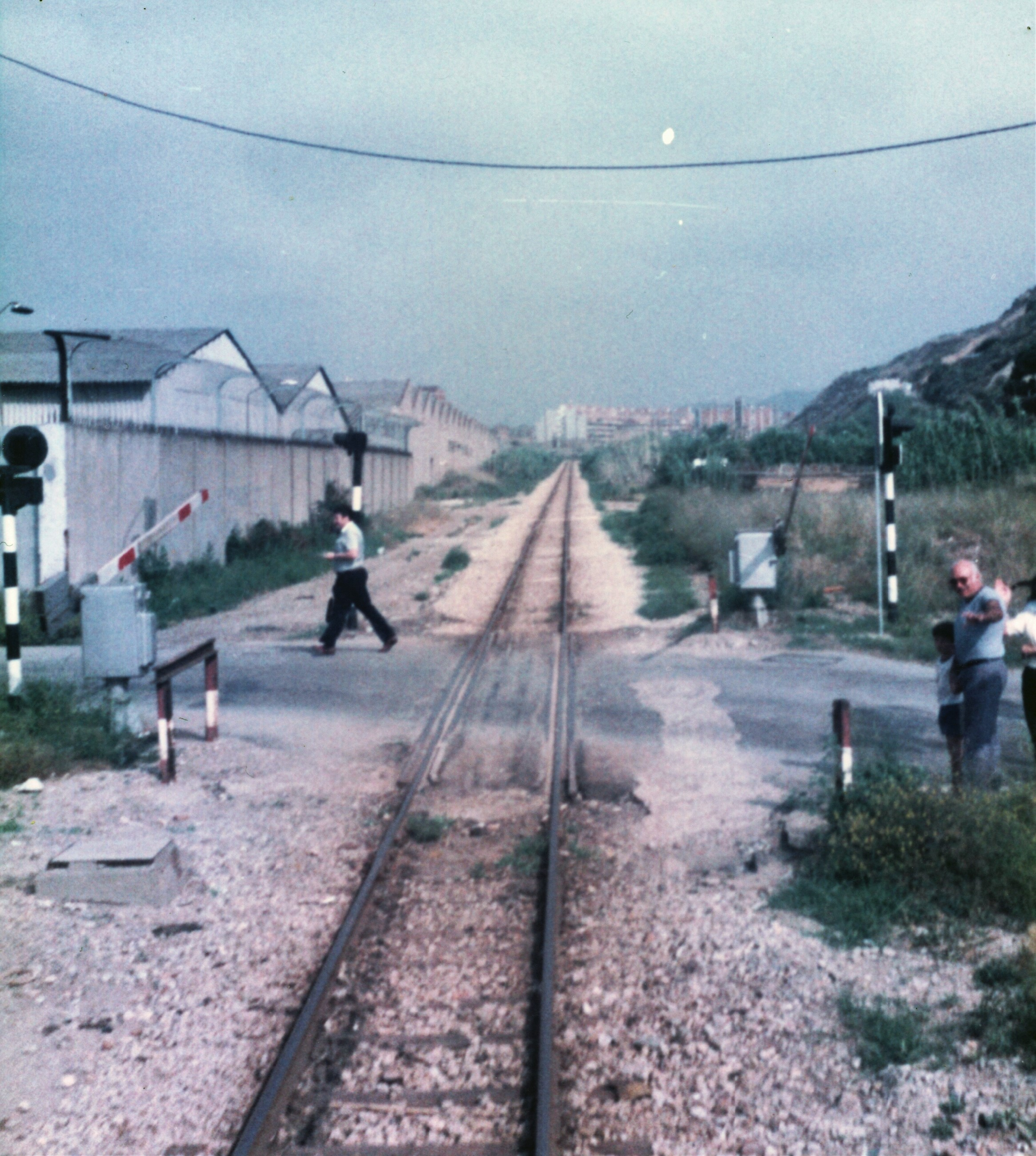 Five days before its closure, the AAFCB made a special farewell trip on the line from Barcelona-El Port line to the Riera Blanca junction, of Ferrocarrils de la Generalitat de Catalunya. Here is the level crossing of Motors Street.